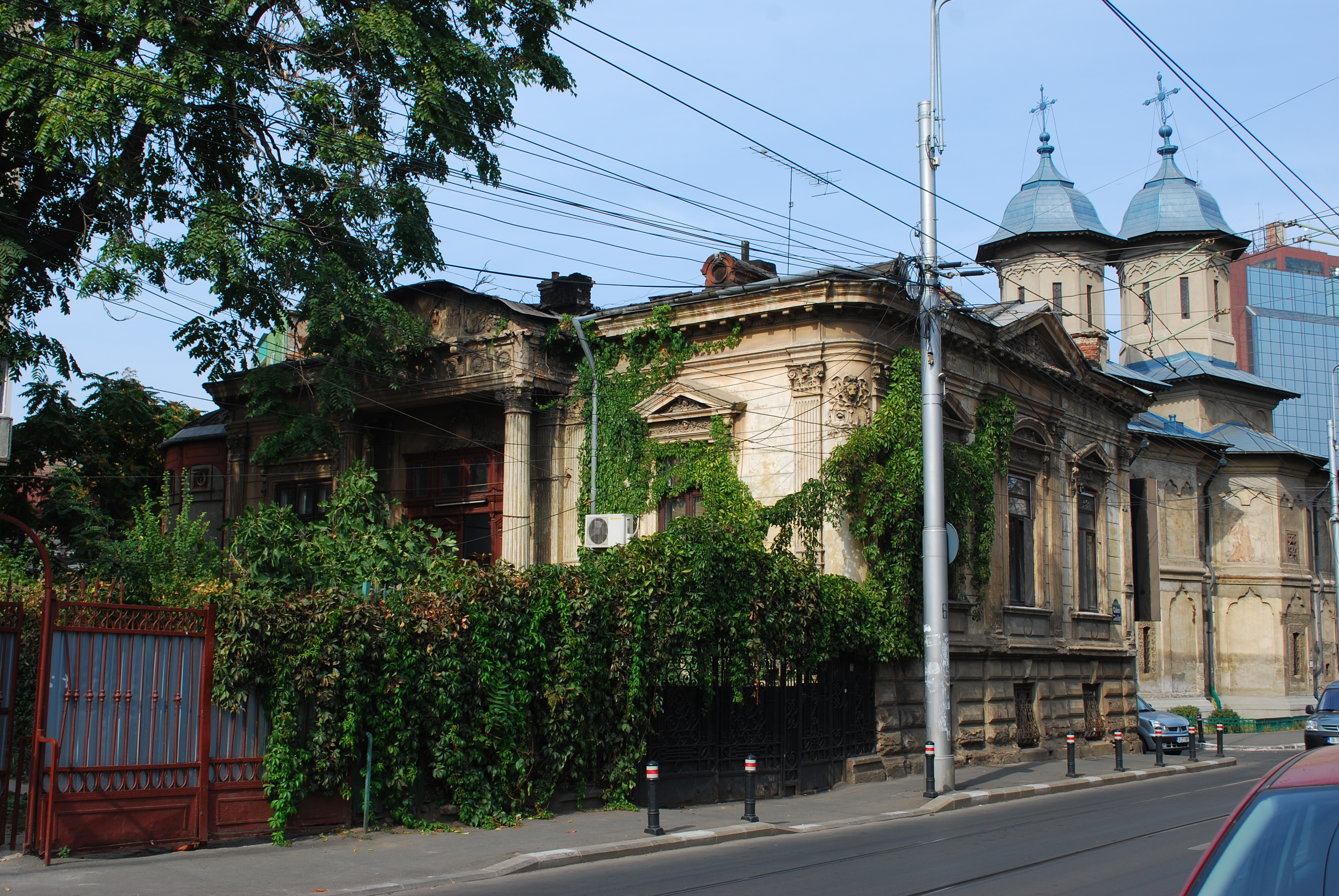 Historic building in Bucharest, Romania, on Calea Mosilor 77